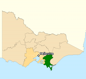 This image incorporates data that is: © Commonwealth of Australia (Australian Electoral Commission) 2009 Division of McMillan 2010